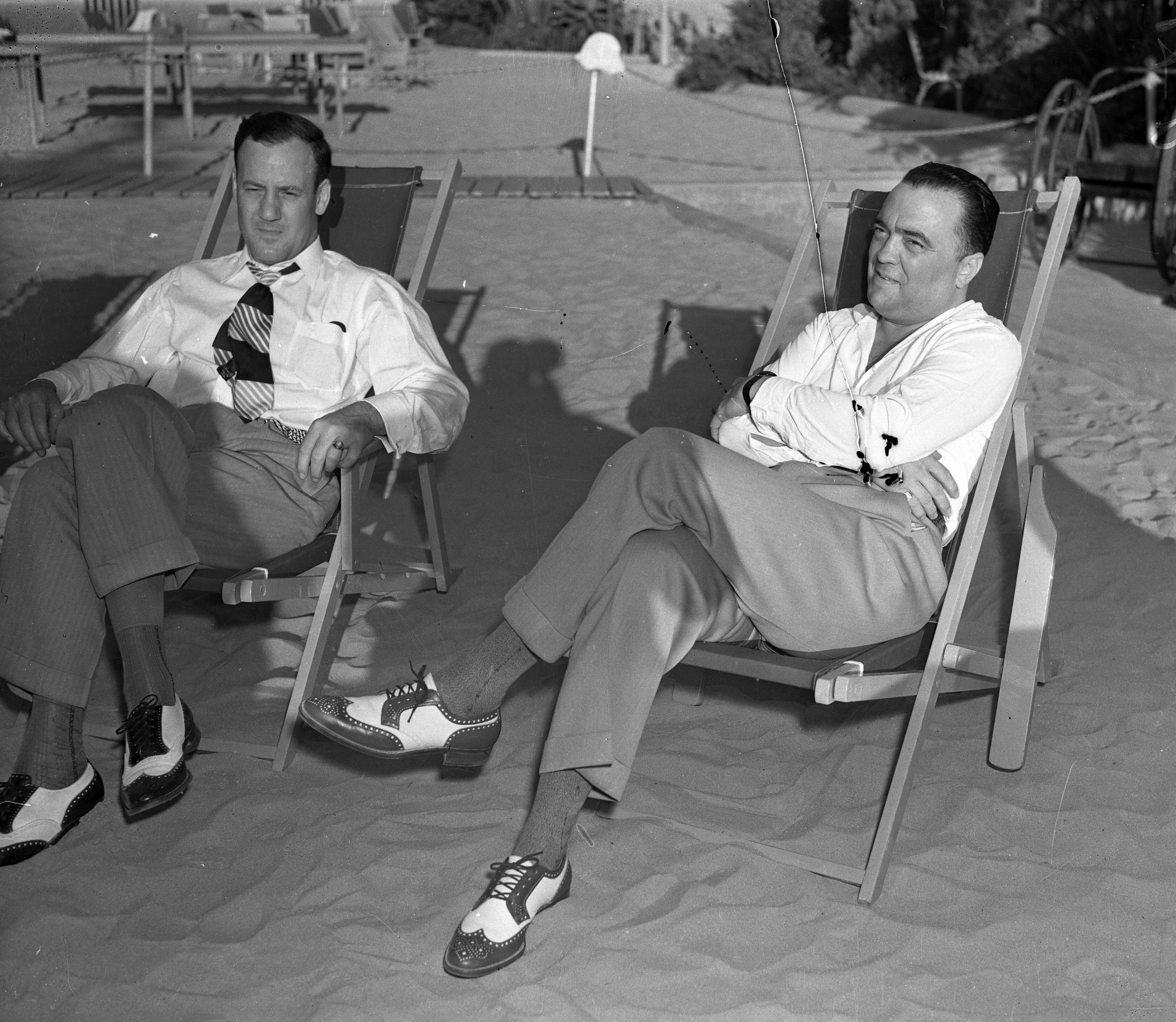 Title: J. Edgar Hoover and his assistant Clyde Tolson sitting in beach lounge chairs, circa 1939